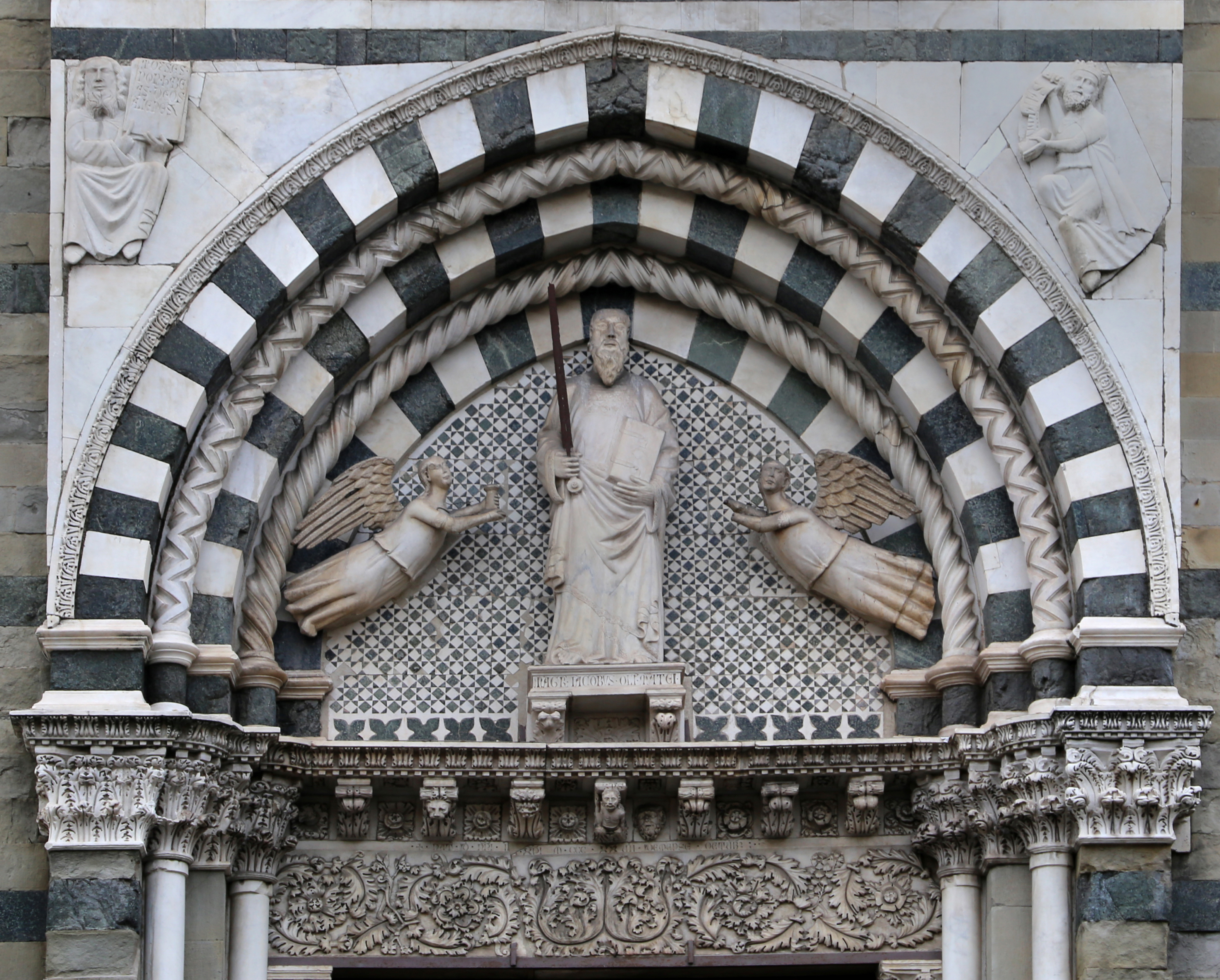 San Paolo (Pistoia)